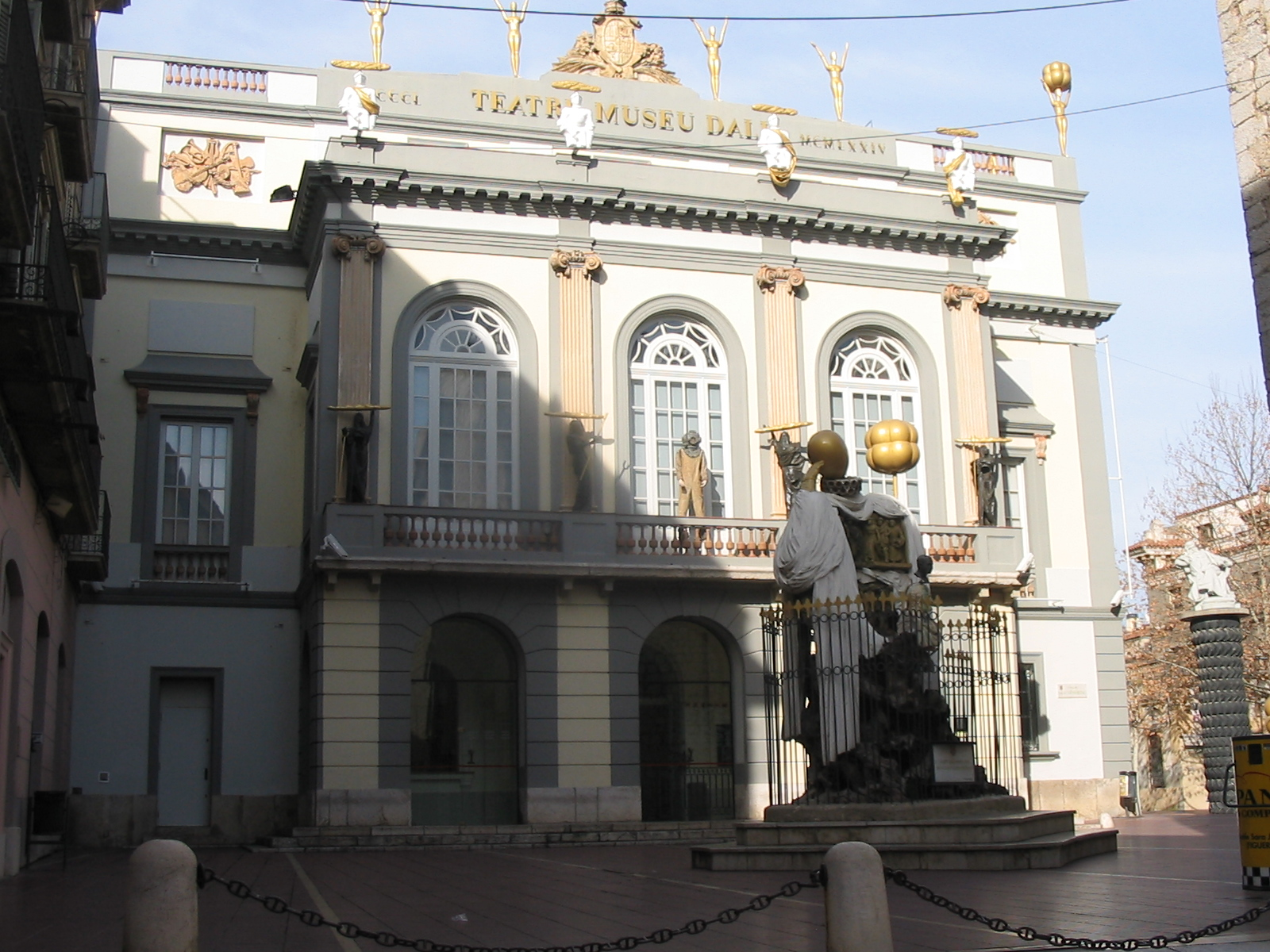 Theater-Museum Salvador Dali, Figueres, Catalonia, Spain.